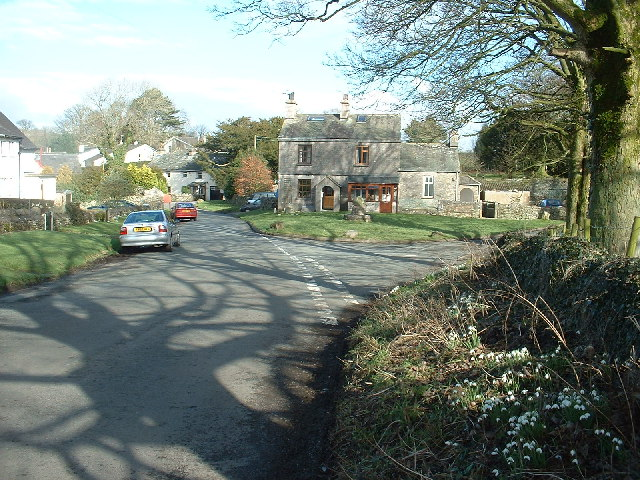 Hincaster Village.